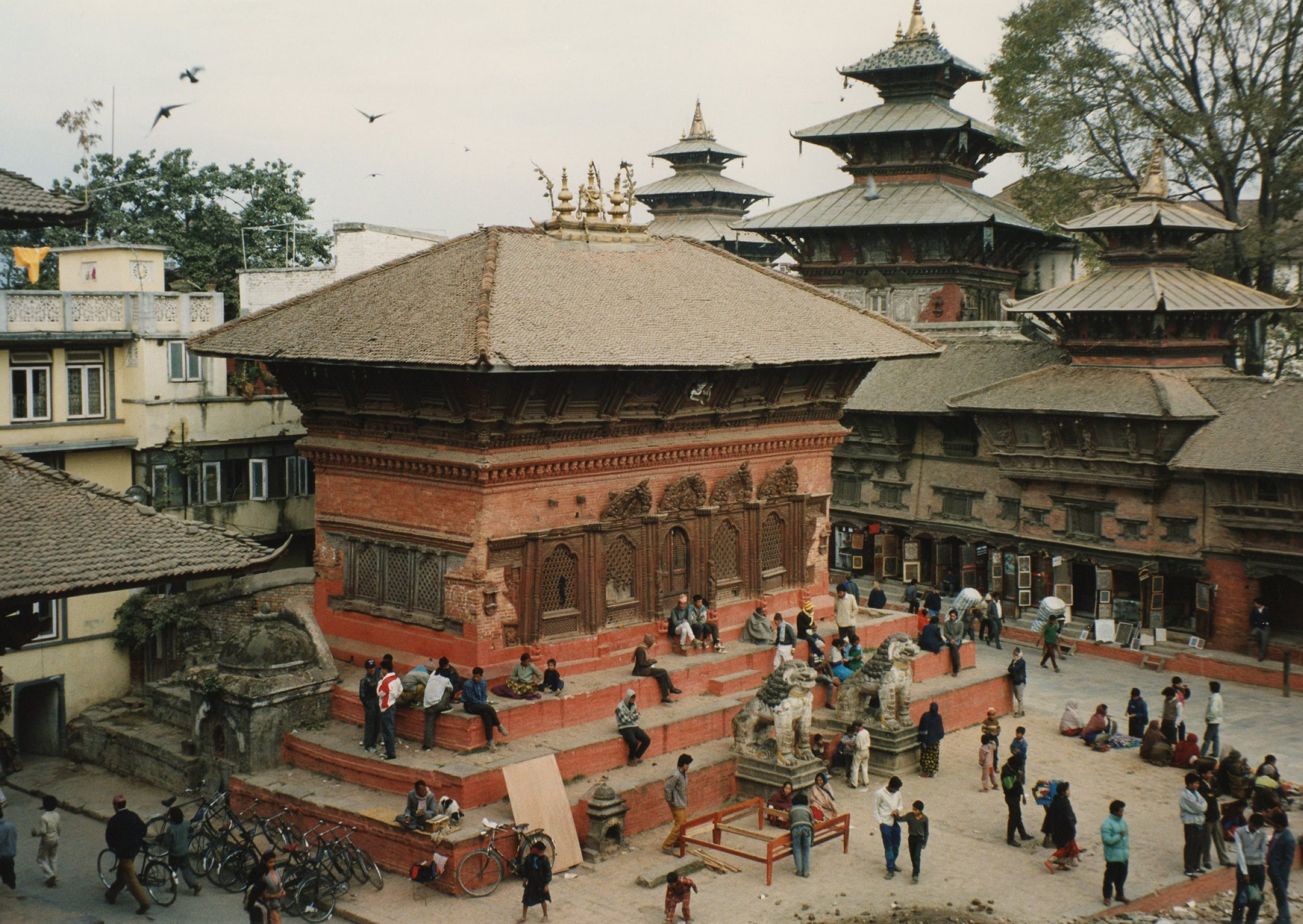 Durbar Square, Kathmandu, Nepal. In foreground: Shiva-Parvati Temple. In background (from left to right): Taleju Temple, Degutale Temple, Bhagwati Temple.